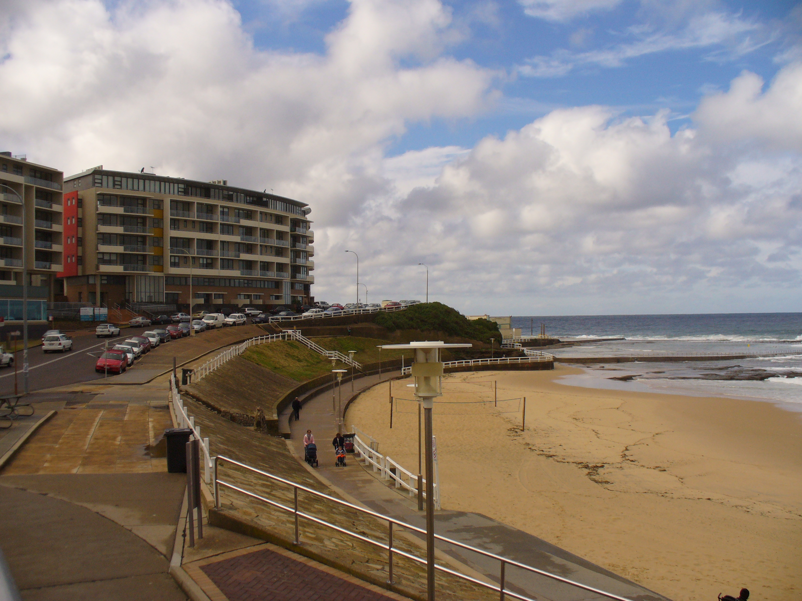 Beach near Fort Scratchley, Newcastle, New South Wales, Australia